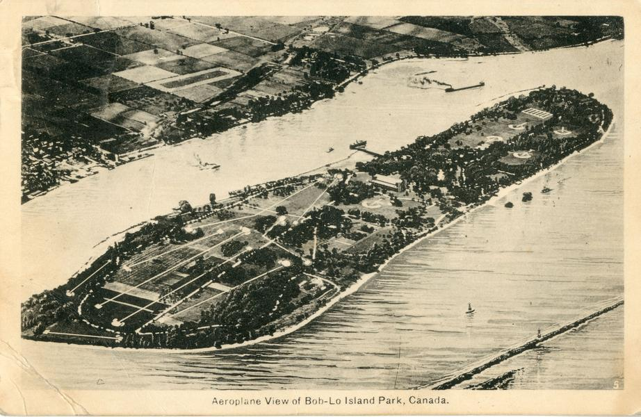 Boblo Island Amusement Park, Bois Blanc Island, Ontario, Canada.